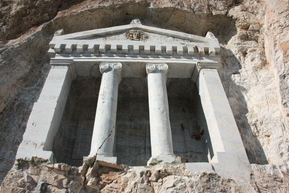 Sevan Nişanyan built rock tomb in Şirince